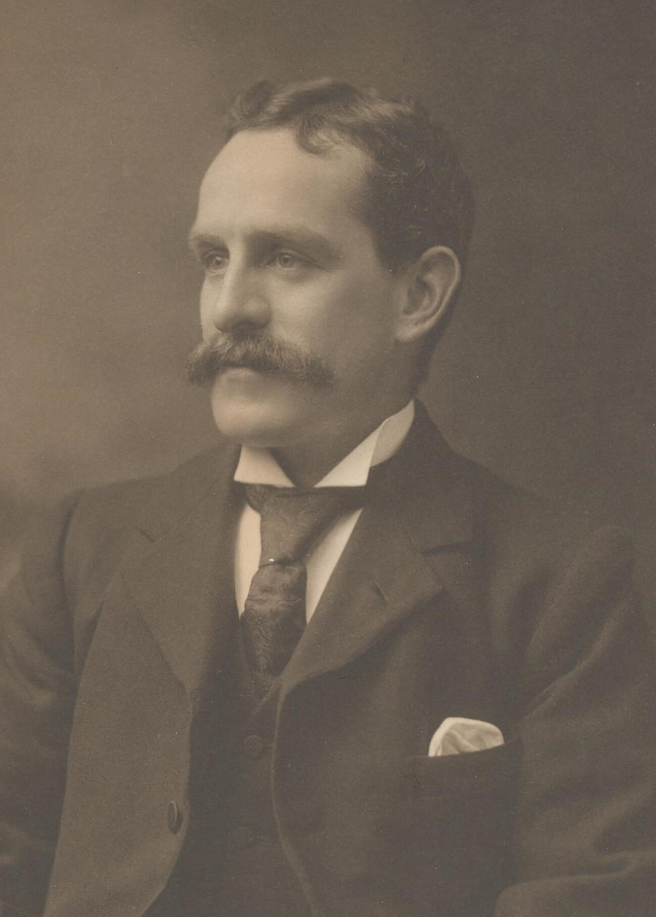 Australian politician Frank Tudor